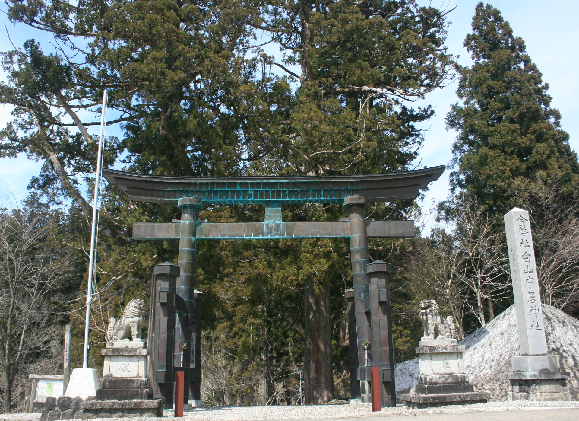 Torii of Hakusanchukyo Shinto shrine